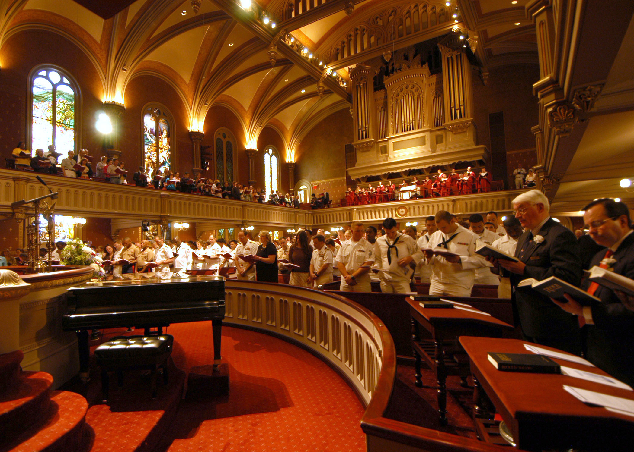 New York, N.Y. May 29, 2005 - Sailors assigned to the conventionally-powered aircraft carrier USS John F. Kennedy (CV 67) participate in a service at the Marble Collegiate Church, while in port during Fleet Week 2005. Fleet Week allows the community to celebrate the sacrifices made by the U.S. Navy, Marine Corps and Coast Guard by giving them the opportunity to visit the city and experience the "Big Apple's" hospitality. U.S. Navy Photo by Photographer's Mate 2nd Class Monica R. Nelson (RELEASED)